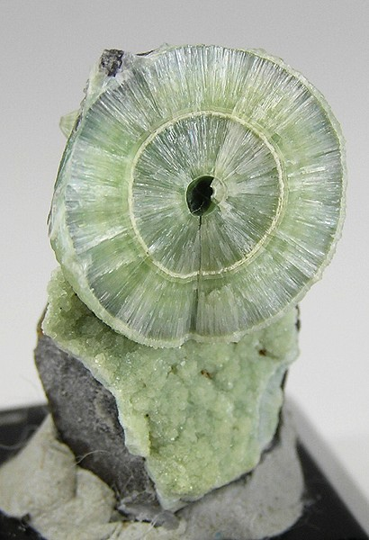 Wavellite Locality: Avant Mine, Avant, Garland County, Arkansas, USA (Locality at ) Size: 3.4 x 2.0 x 1.1 cm. This superb toenail specimen of wavellite from the premier finds in Arkansas shows very plainly the internal structure of massed acicular crystals that grow radially out from the center. This is actually a "ball inside a ball" - you can see the thin "shell" of the original ball that was later enclosed. This split ball sits up perfectly on a natural base of matrix with a layer of wavellite on it. Ex. Feist Collection.